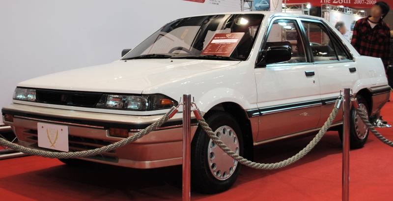 Nissan Langley.